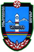 Symbol of Armenian Border Guard